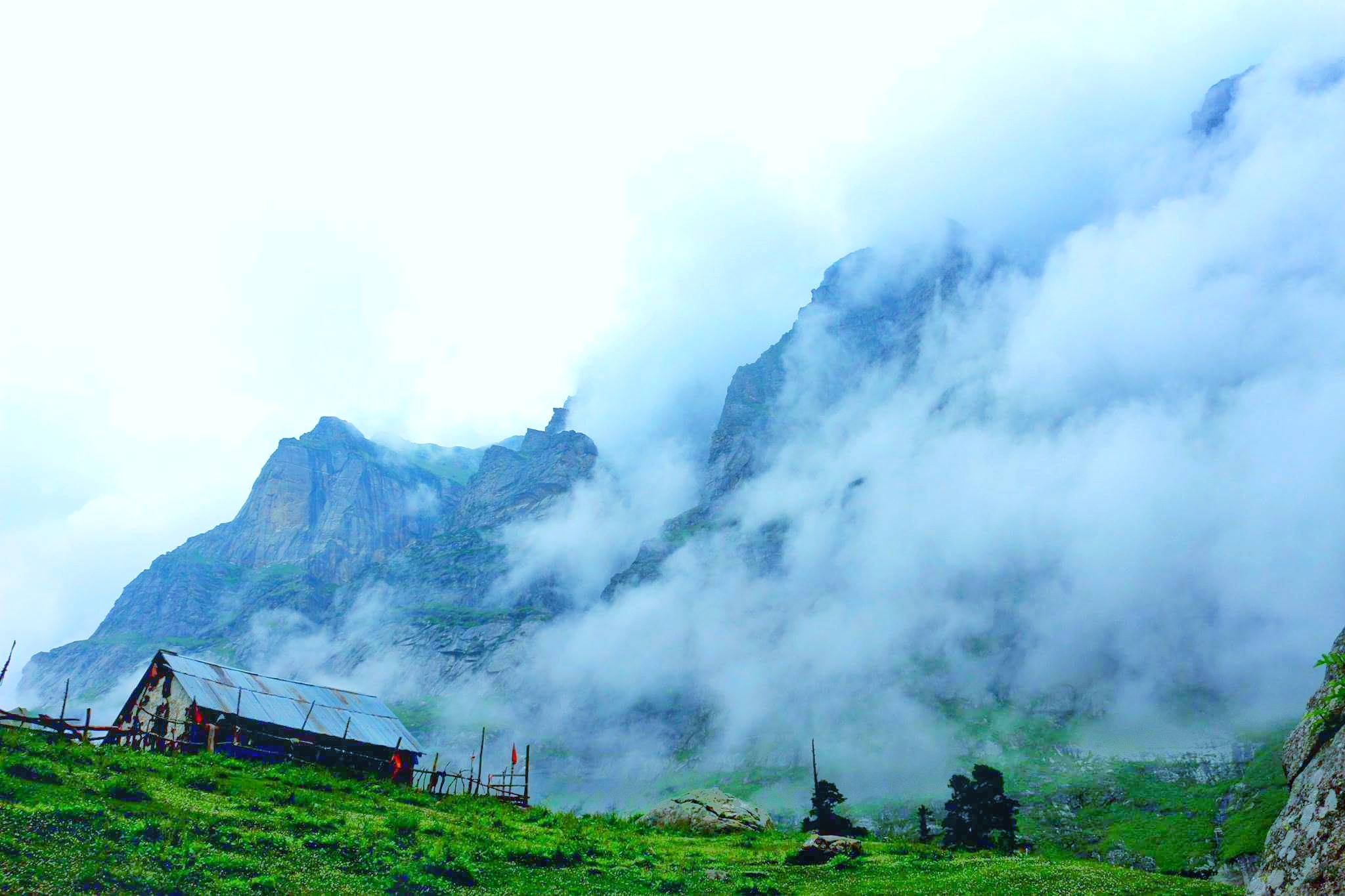 Himachal Pradesh , incredible beauty of Himachal Pradesh, 2016 summer